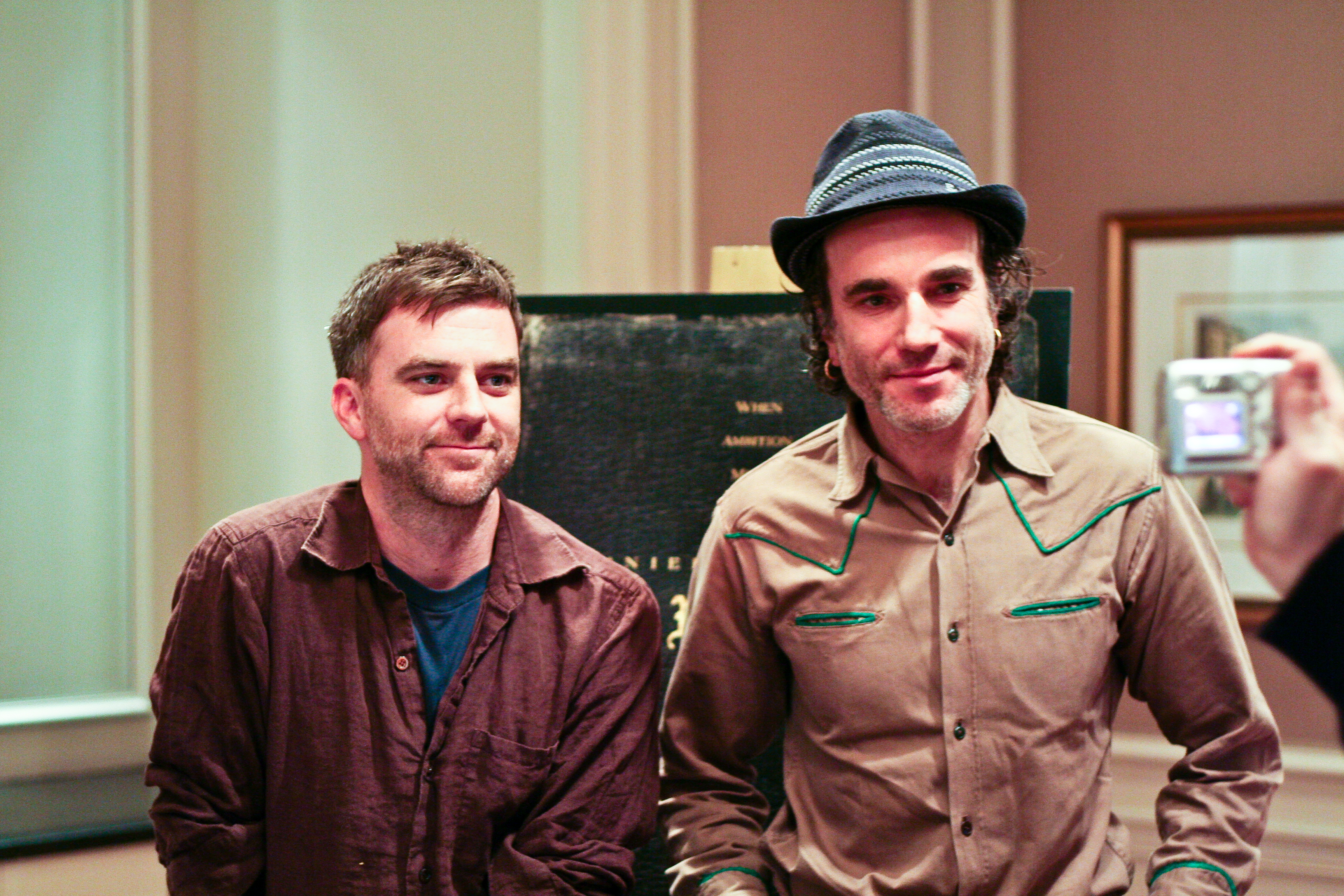 Director Paul Thomas Anderson and actor Daniel Day-Lewis in New York on December 10, 2007